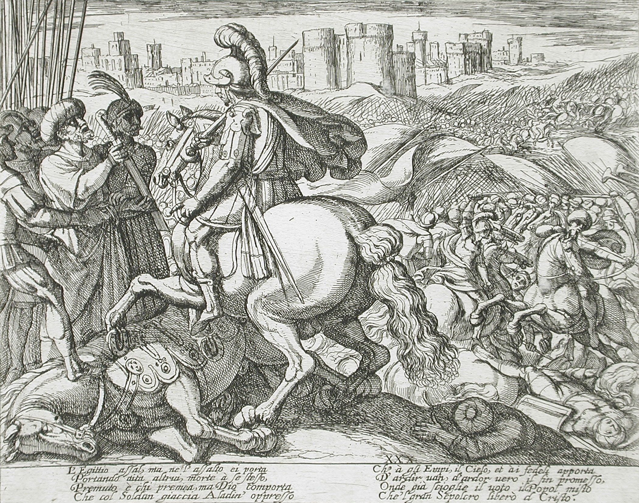 Italy, 16th century Series: Jerusalem Delivered II by Tasso Prints; etchings Etching Los Angeles County Fund (65.37.83) Prints and Drawings